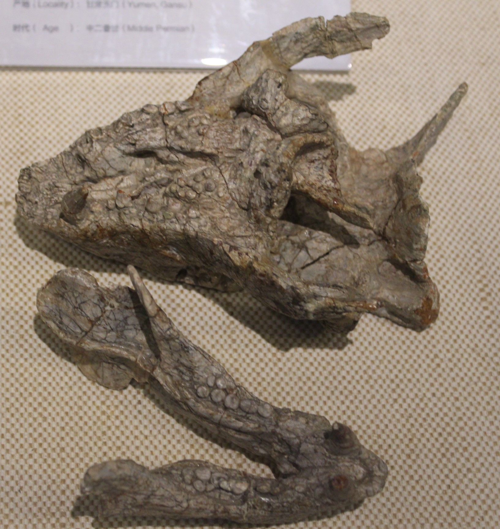 Holotype skull of Biseridens qilianicus on display at the Paleozoological Museum of China.